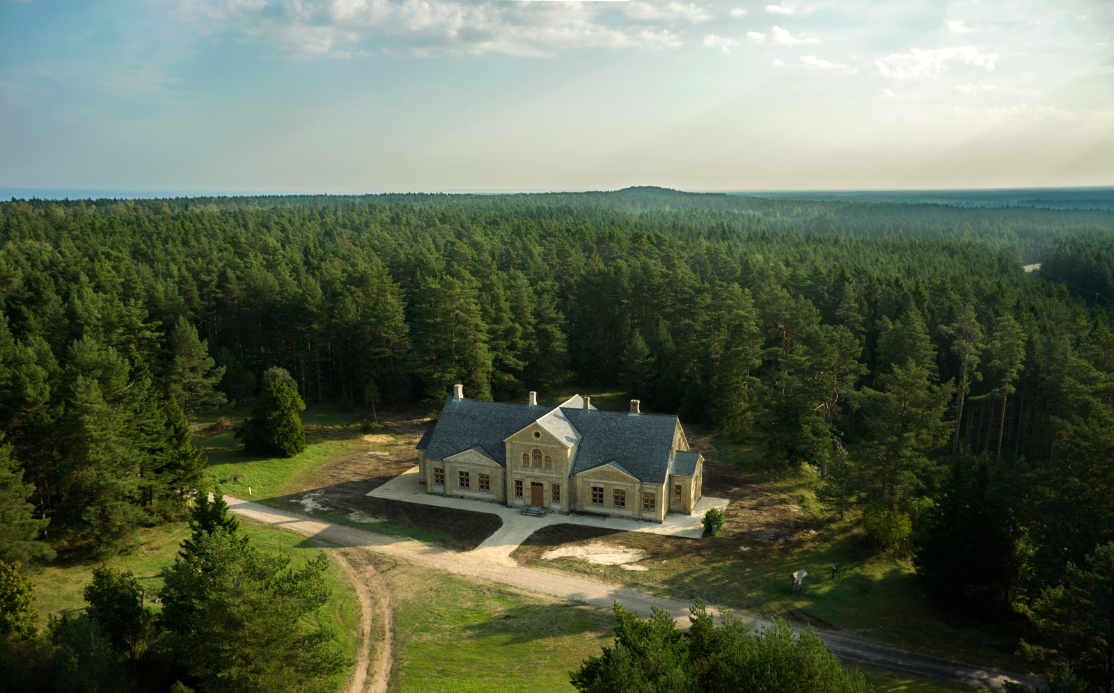 Kõpu orthodox church / schoolhouse